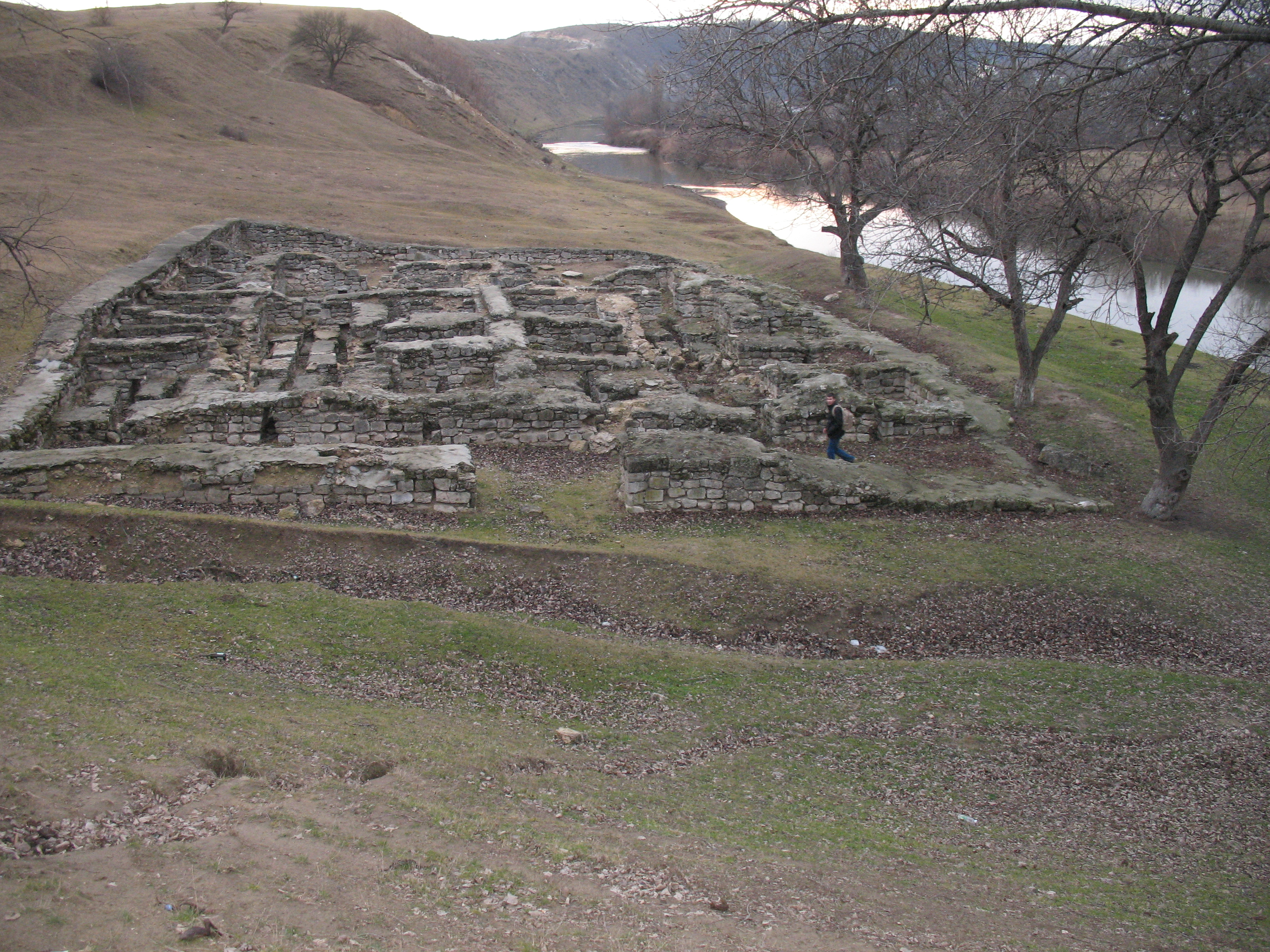 Remains of the tatar bath near Trebujeni, Orhei county, Moldova